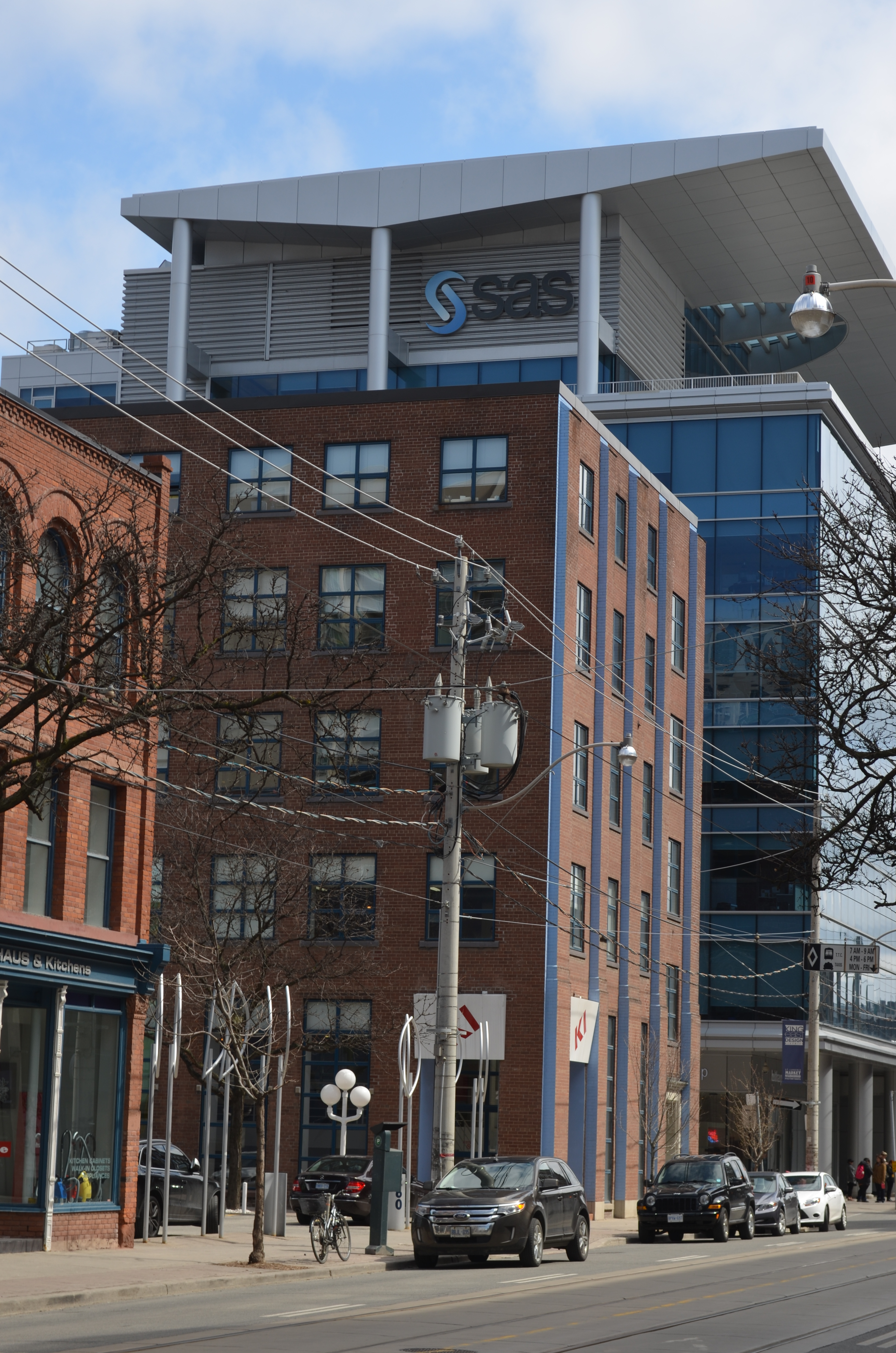 SAS Canadian HQ, 280 King St East, Toronto